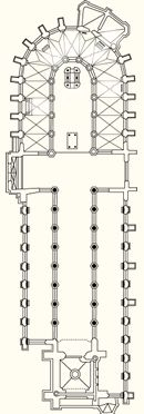 Plan of the Nieuwe Kerk in Delft.